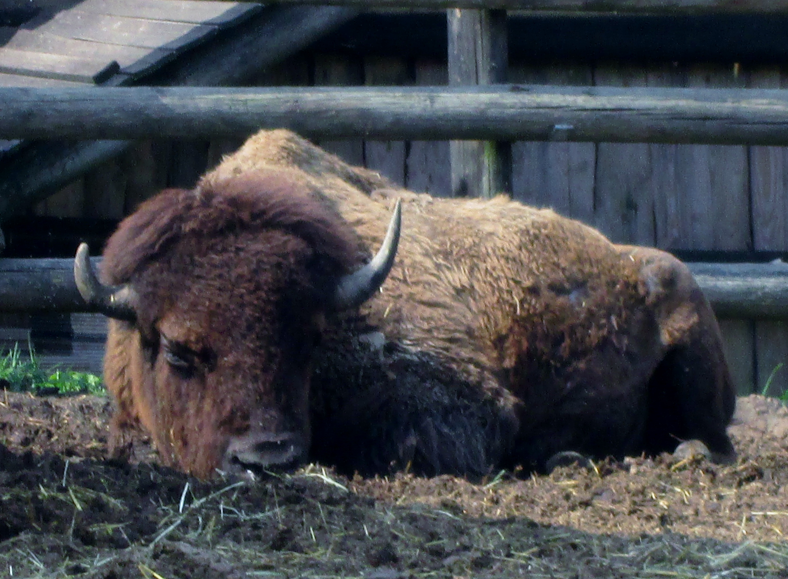 Bison in Pombia Safari Park ITALY